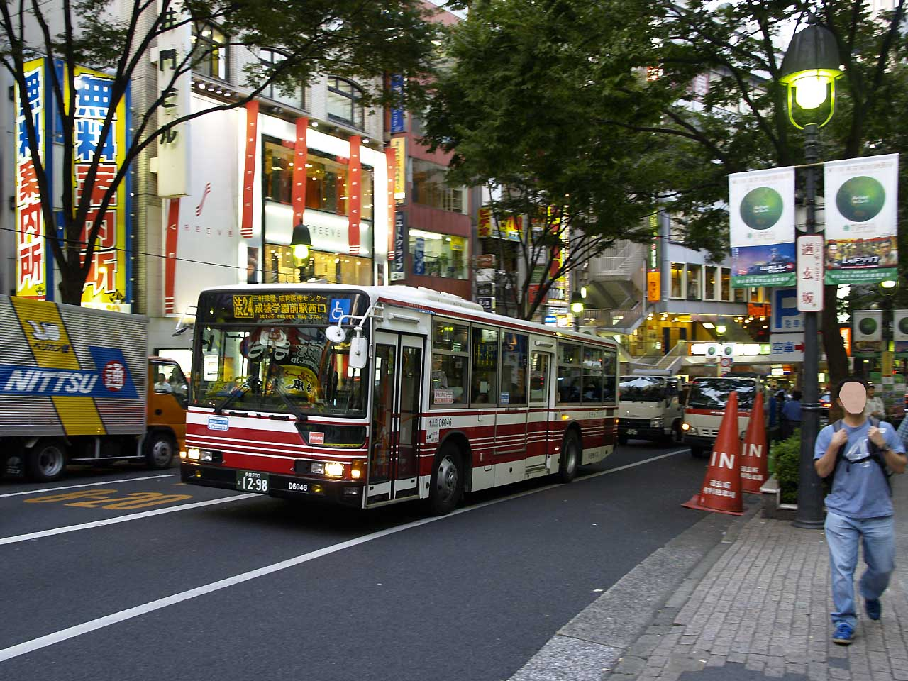 Odakyu Bus in Dogenzaka, located in Seijo line. Model: Mitsubishi Fuso Aero Star PJ-MP37JK License plate: TKT200KA1298